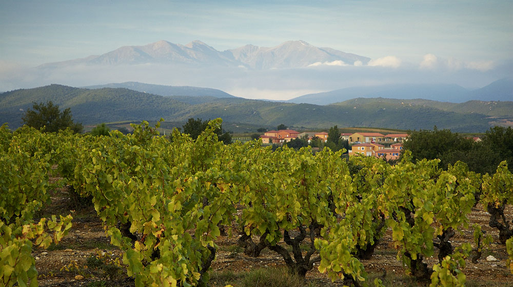 Vineyard near Perpignan, Languedoc region, France 2006